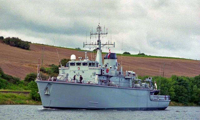 HMS "Brecon" in the Bann The mine countermeasures boat HMS “Brecon” makes her way along the tidal waters of the River Bann on a courtesy visit to Coleraine – believed to be the first naval visit (other than a training boat) to the harbour.